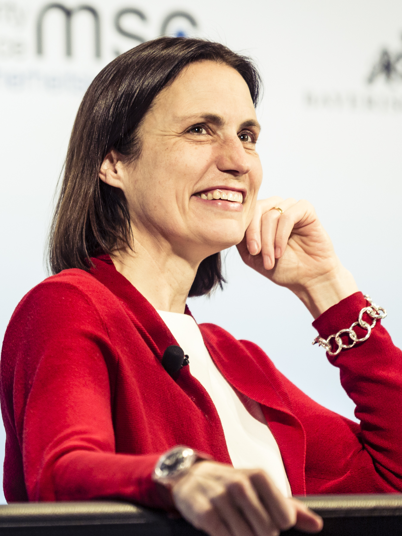 Fiona Hill during the Munich Security Conference 2017.